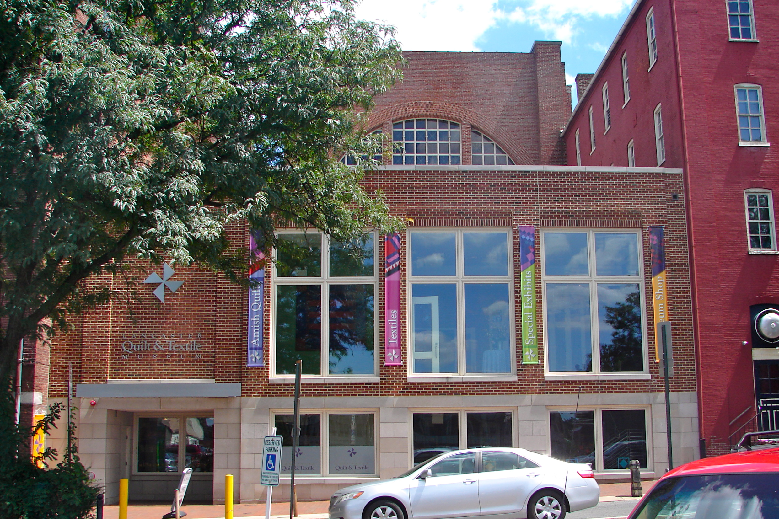 Lancaster Quilt & Textile Museum, which, among other things, displays the famous Amish quilts of Lancaster County. Housed in the building of the former Lancaster Trust Company on the NRHP since November 3, 1983. At 37–41 North Market Street in the Central Business District of Lancaster, Pennsylvania. The front of the building is fairly new and hides the old Trust Building, but the arched window near the top of the photo is part of the old building. The key to the NRHP listing, however, is the interior of the building.